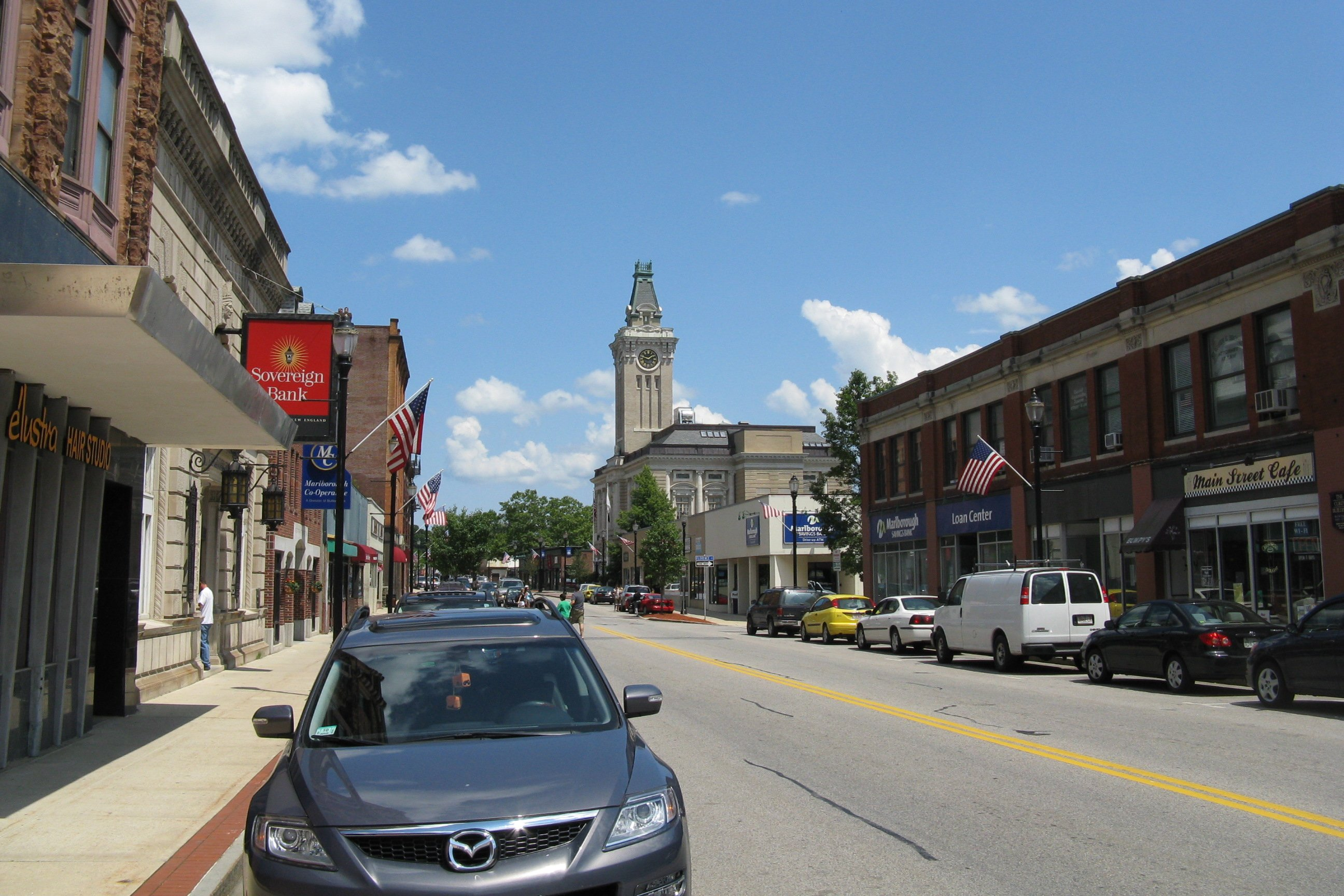 Main Street looking east, Marlborough Massachusetts